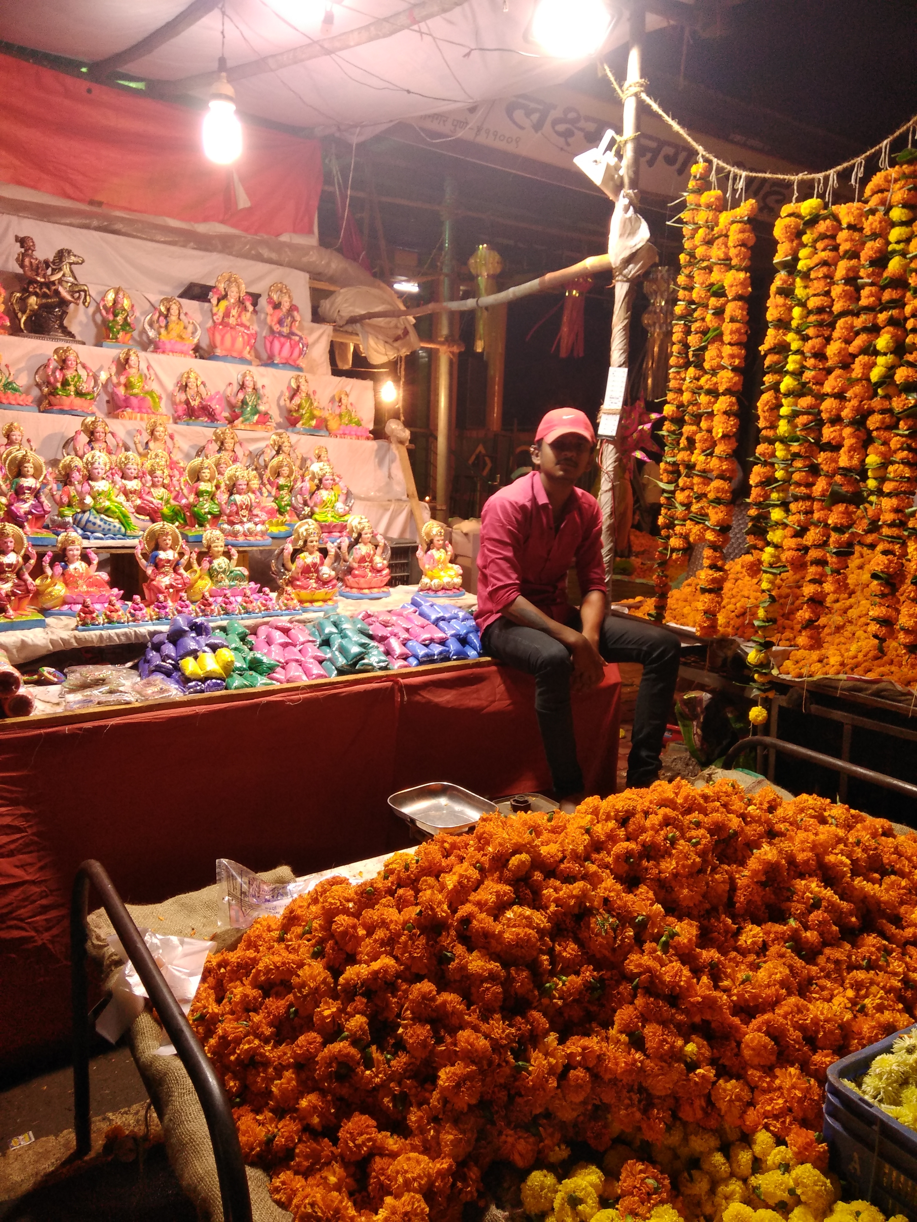 Flower garlands and flowers for diwali